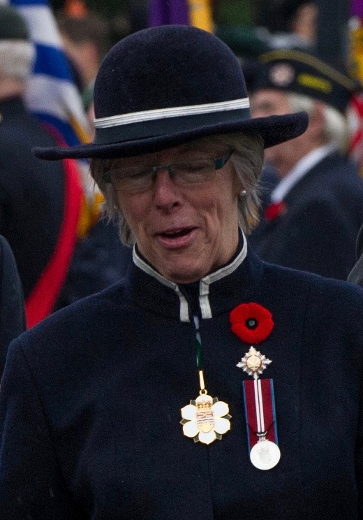 British Columbia Lt. Governor Wikipedia:Judith Guichon during Remembrance Day ceremonies in November 2012